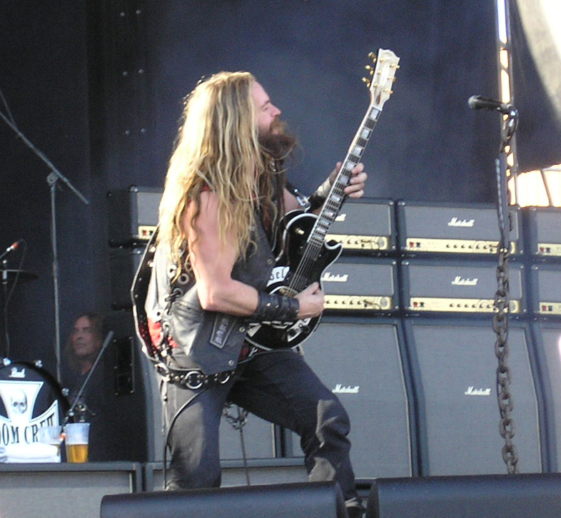 Zakk Wylde - June 22, 2007 - Monsters of Rock in Parque Hispanidad, Zaragoza, Aragon, Spain